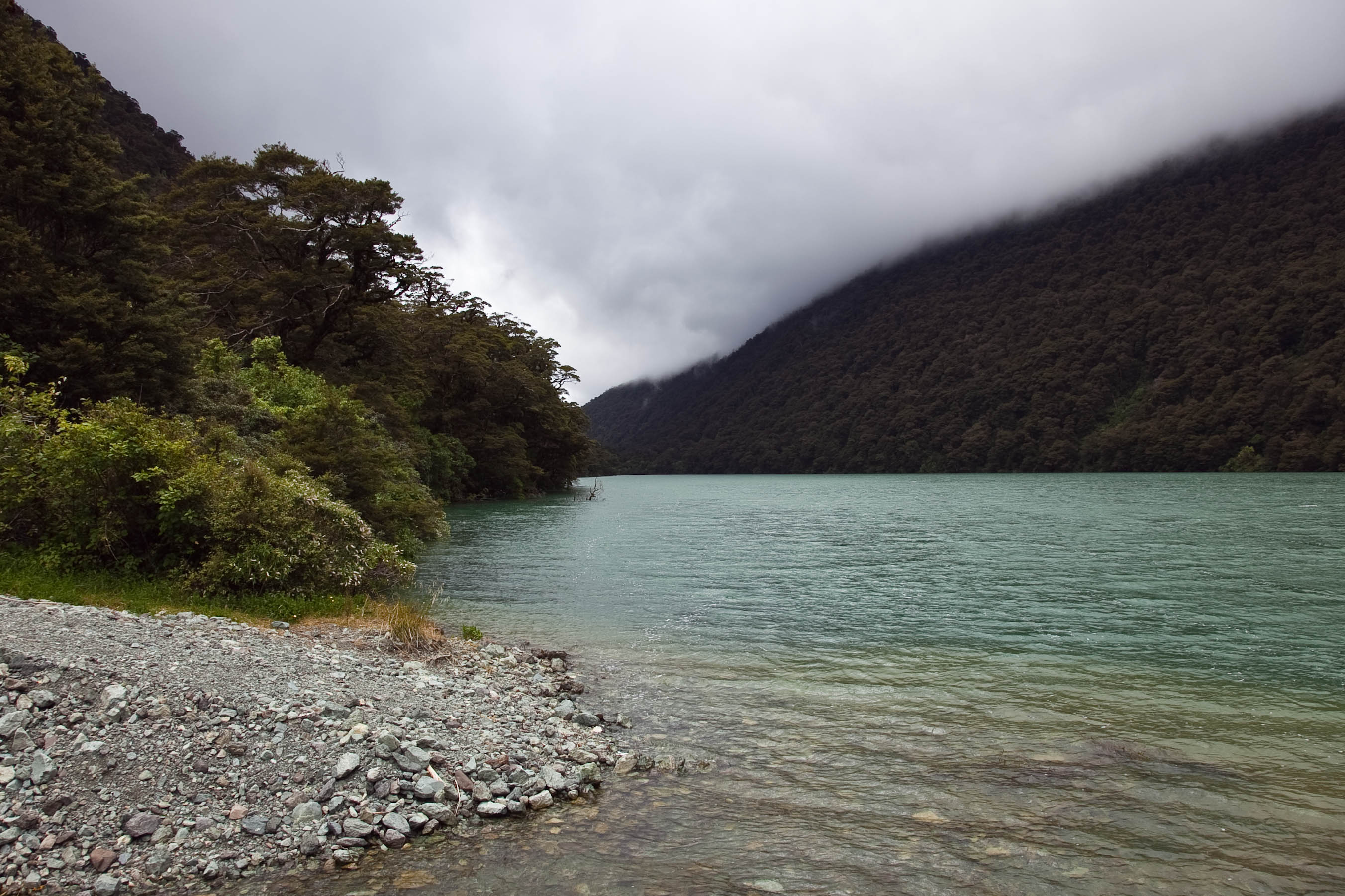 View of Lake Fergus, New Zealand